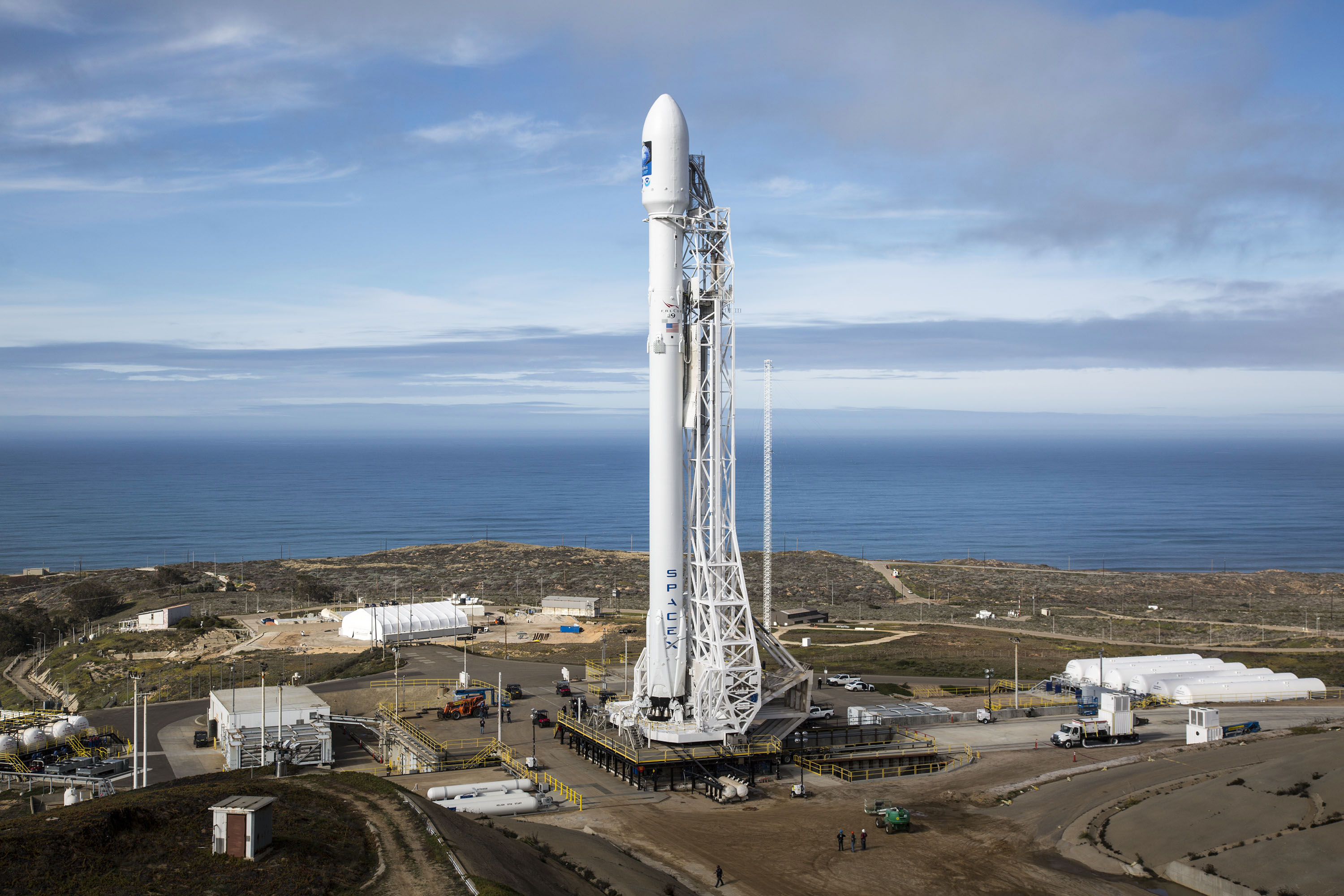 Falcon 9 Vertical At Vandenberg Air Force Base